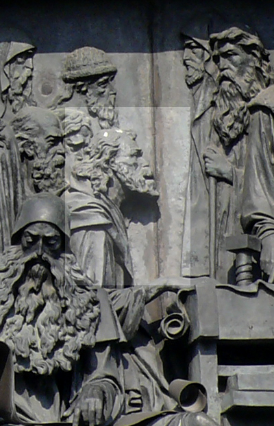 Metropolitan Makary on the Monument "Millennuim of Russia" in Veliky Novgorod